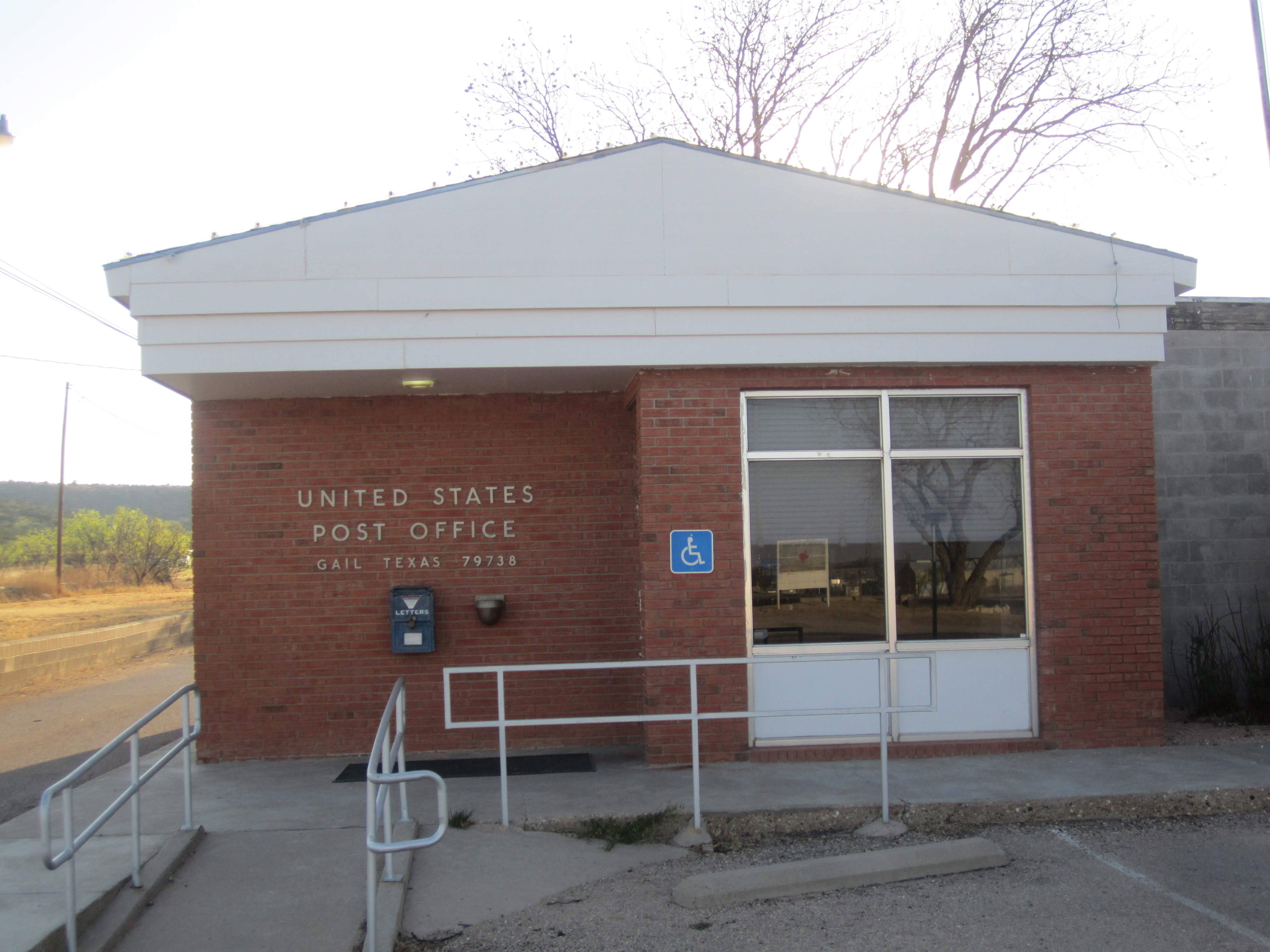 I took photo with Canon camera in Gail, TX.